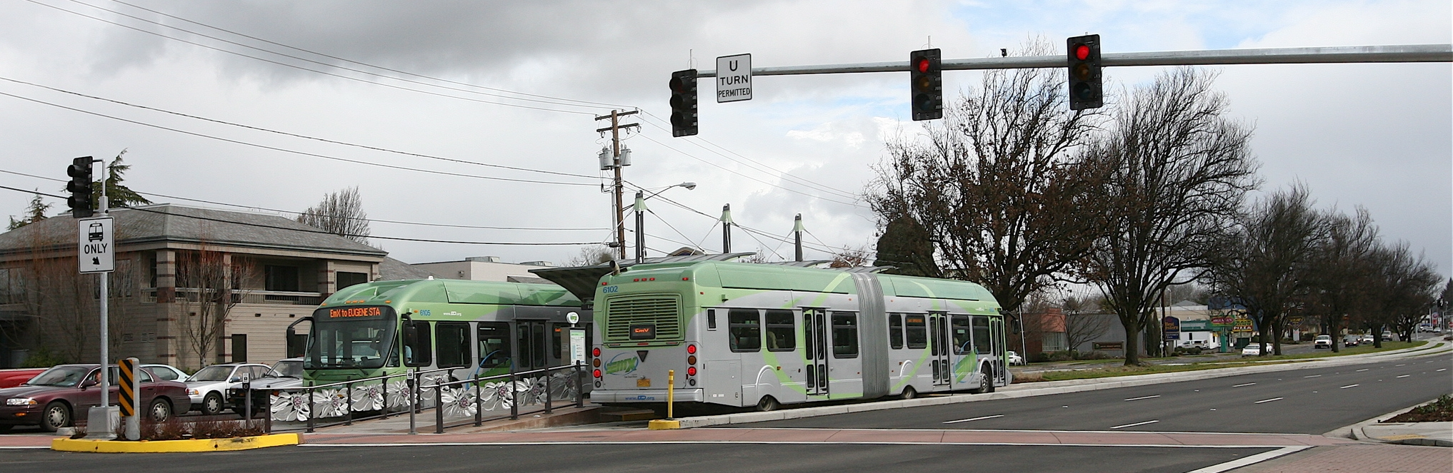 The principal elements of EmX: bus, station, and dedicated lane.